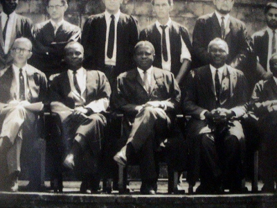 Edward Wilmot Blyden III, Manilius Garber and Abioseh Davidson Nicol at Fourah Bay College Congregation.